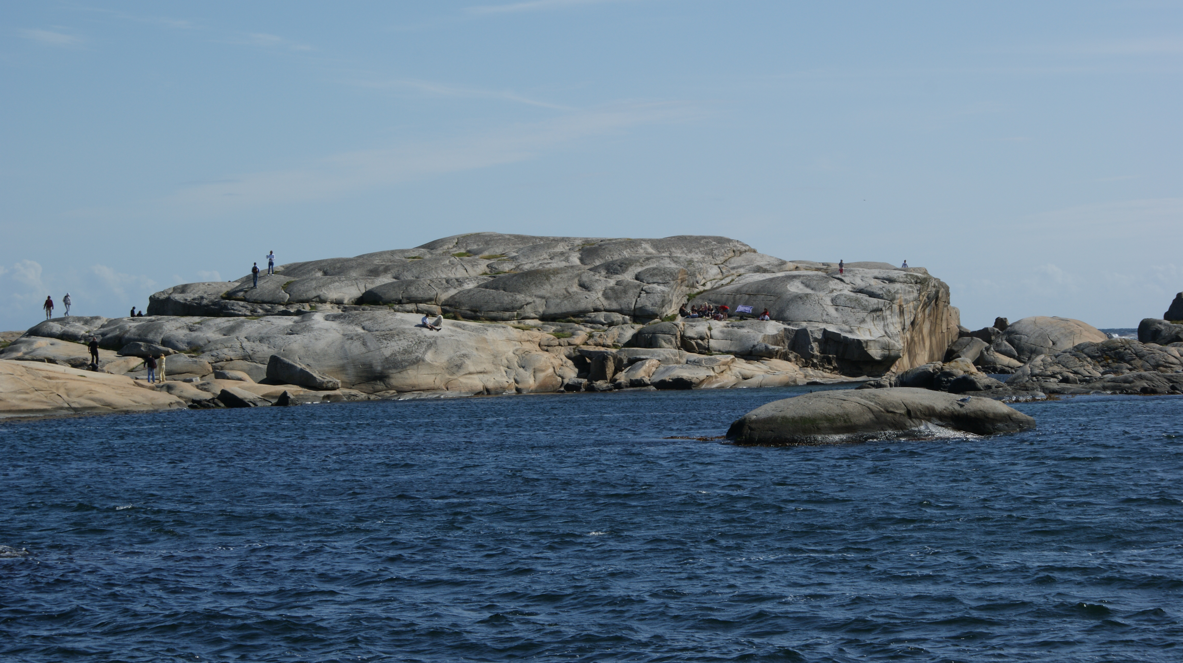 End of the World, Verdens Ende, Tjøme, Vestfold, Norway (Viewpoint)